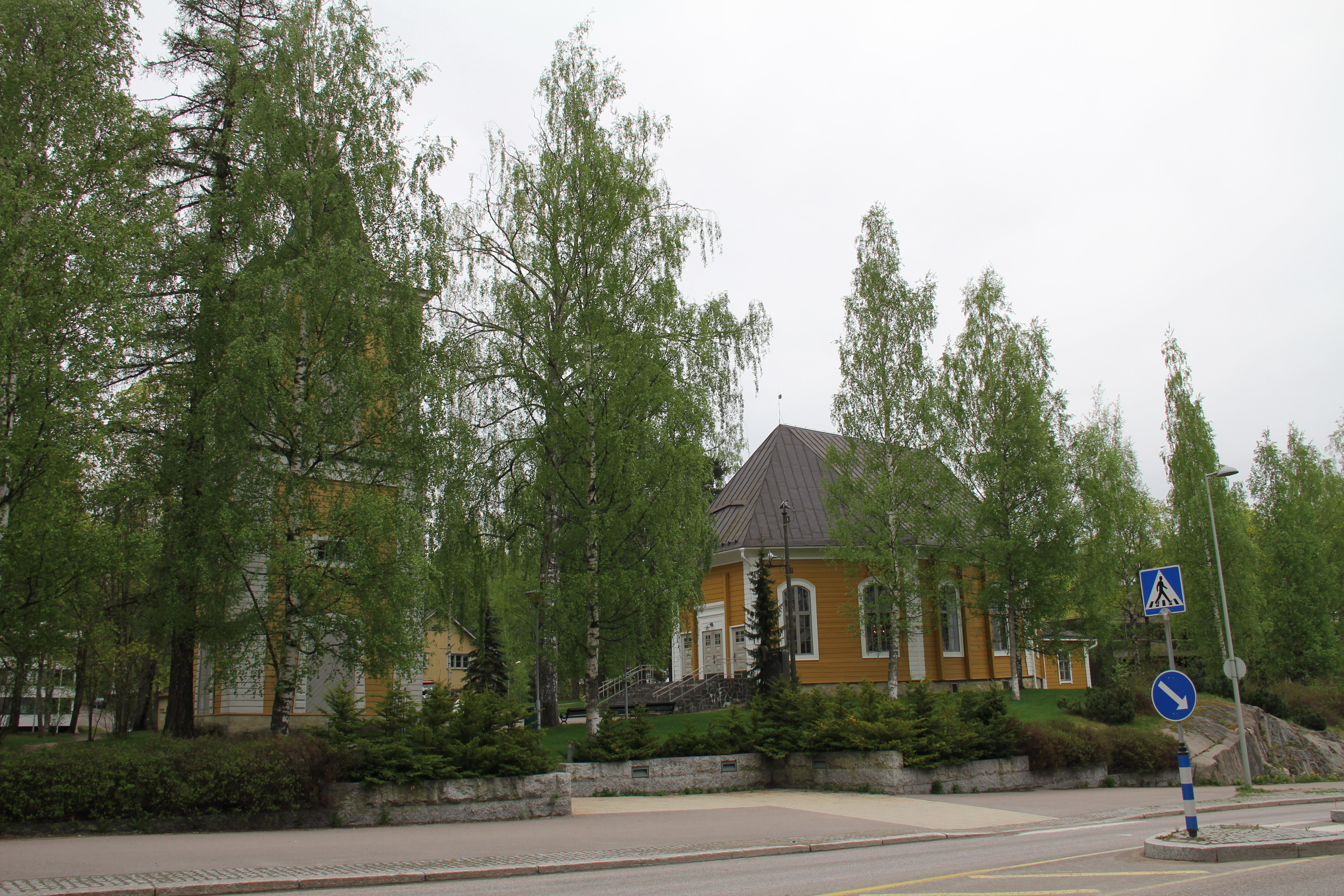 Heinola church, Heinola, Finland. Built by Mats Åkergren, completed in 1811. Photo taken across the street.